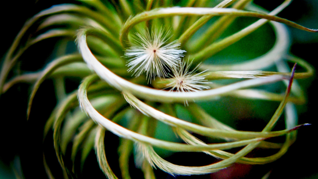 Unidentified plant at the Elmhurst Conservatory, Illinois